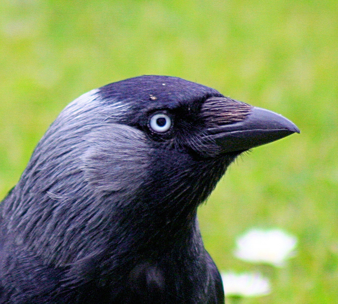 A close up portrait of one of the many jackdaws that visit my garden and steal food from the sparrows and blackbirds. (Eurasian Jackdaw, Corvus monedula, Daurian Jackdaw=Corvus dauuricus no record of Durian Jackdaws in Scotland, only rare vagrants to Europe)